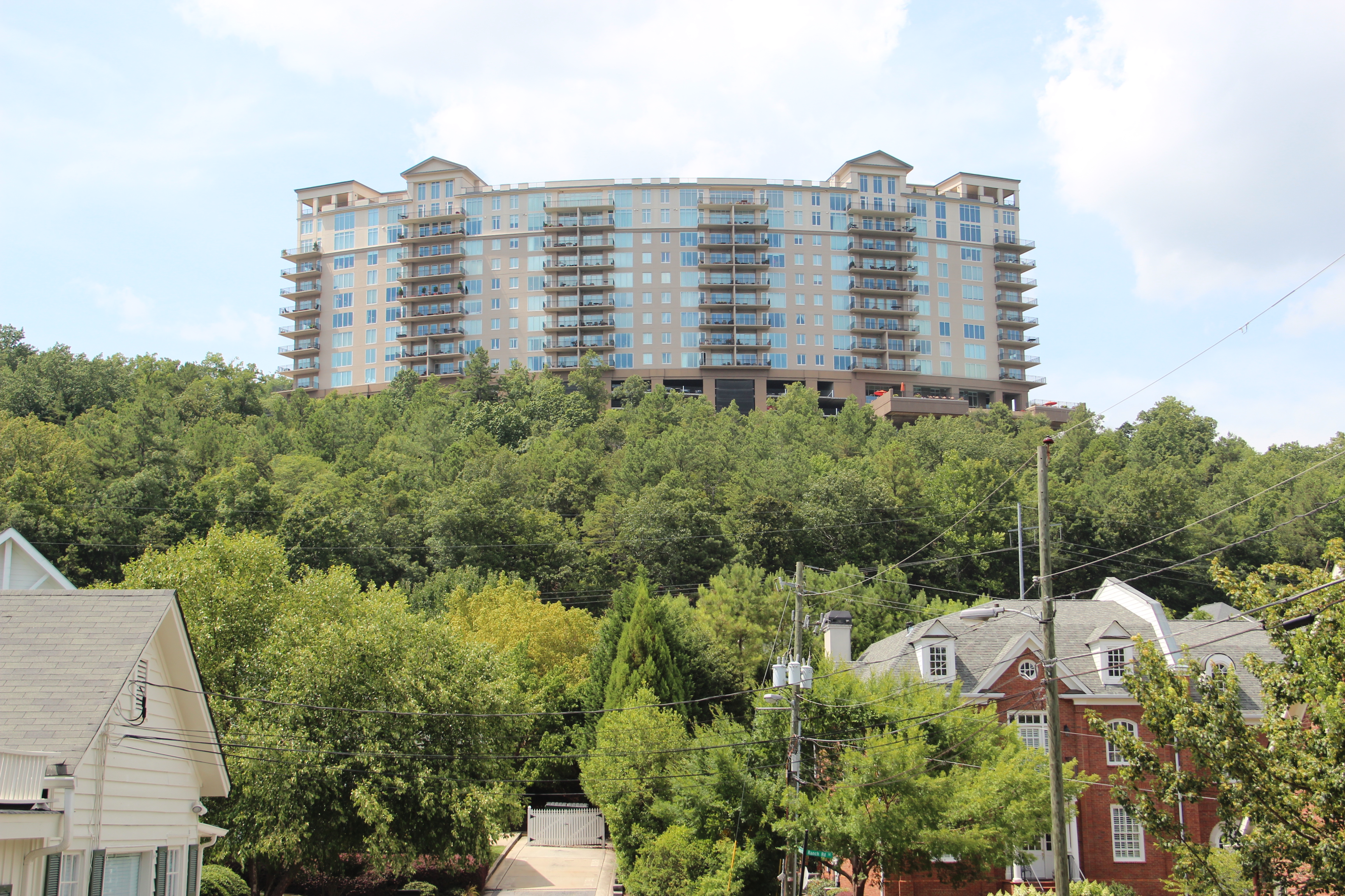 Apartments on Mount Wilkinson, Vinings, Georgia